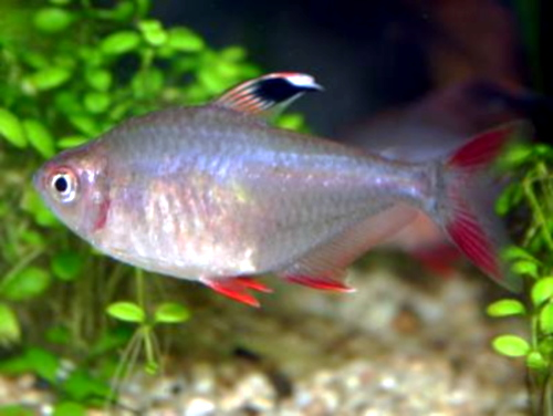 Ornate tetra (Hyphessobrycon bentosi).